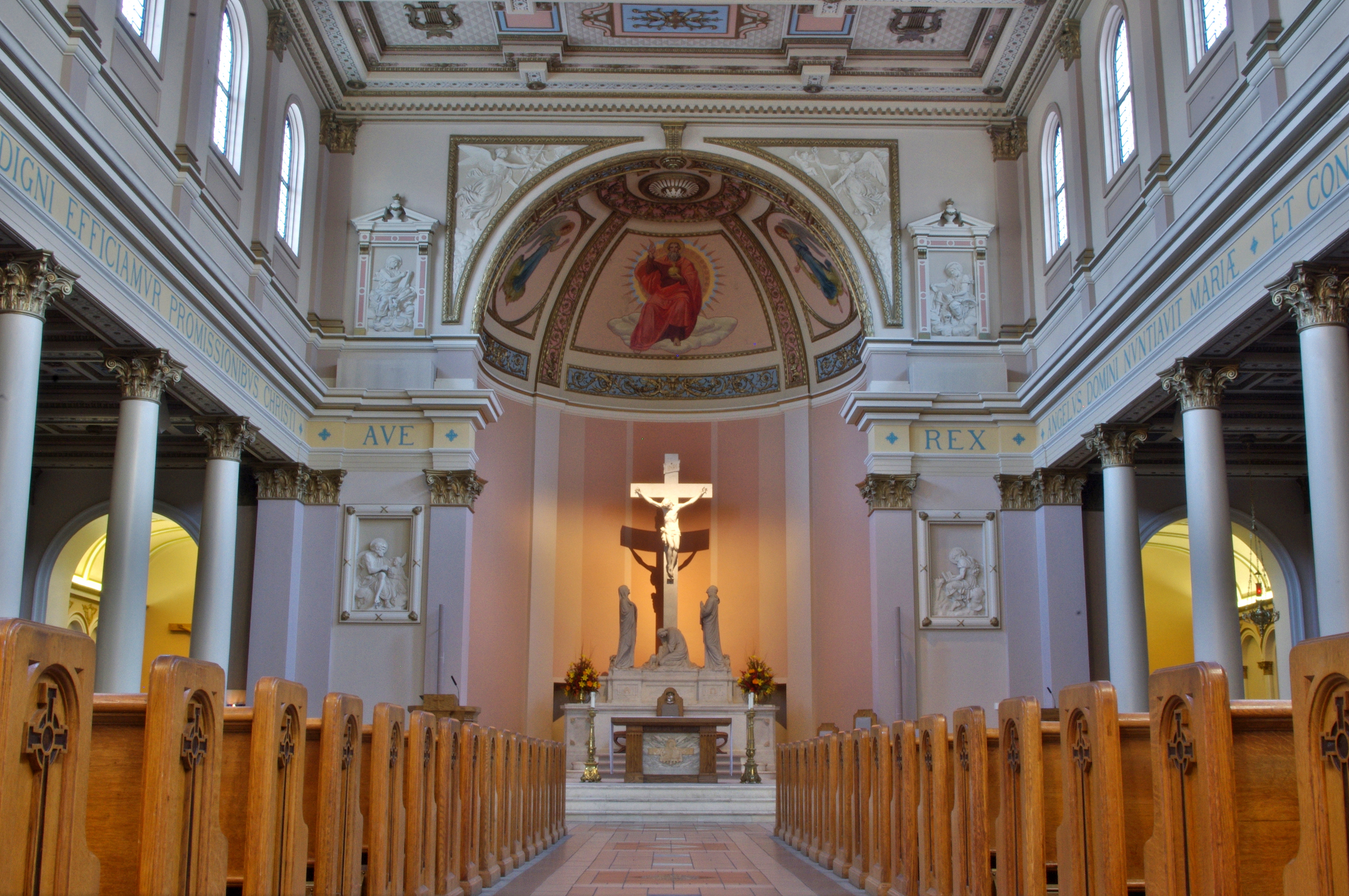 Cathedral of the Incarnation (Nashville, Tennessee) - interior, nave